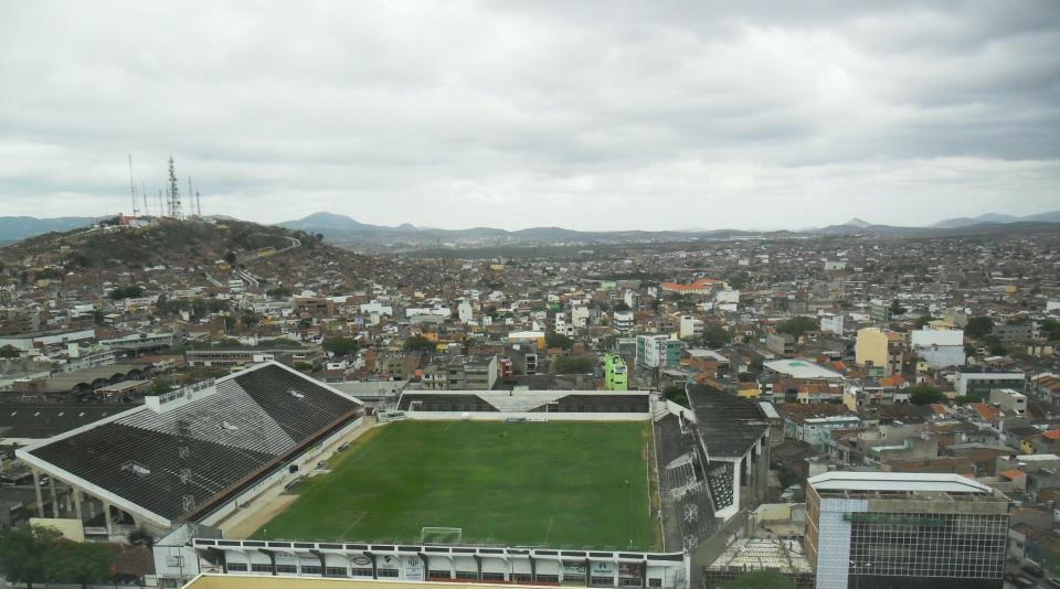 Picture taken Nov/2012- Central de Caruaru Soccer Stadium